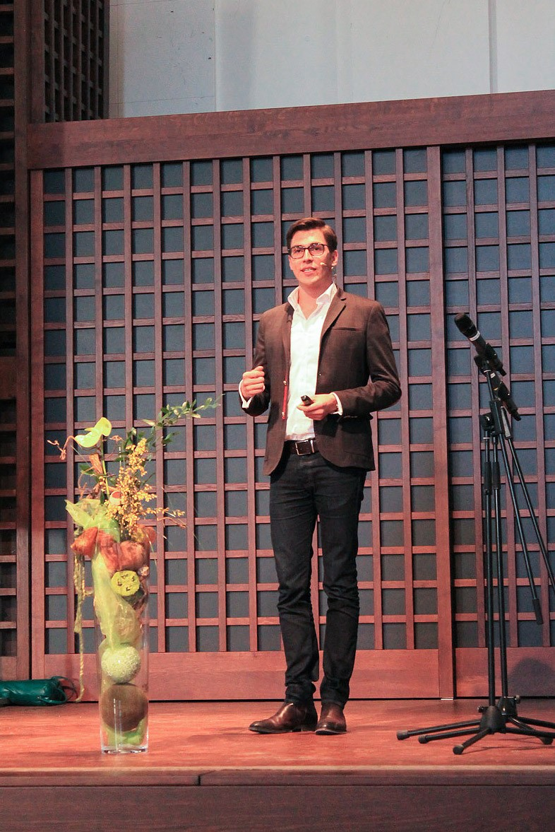 Andreas Bruckschlögl at the Gabrieli High School in Eichstätt during the lecture "How I get, who I am"